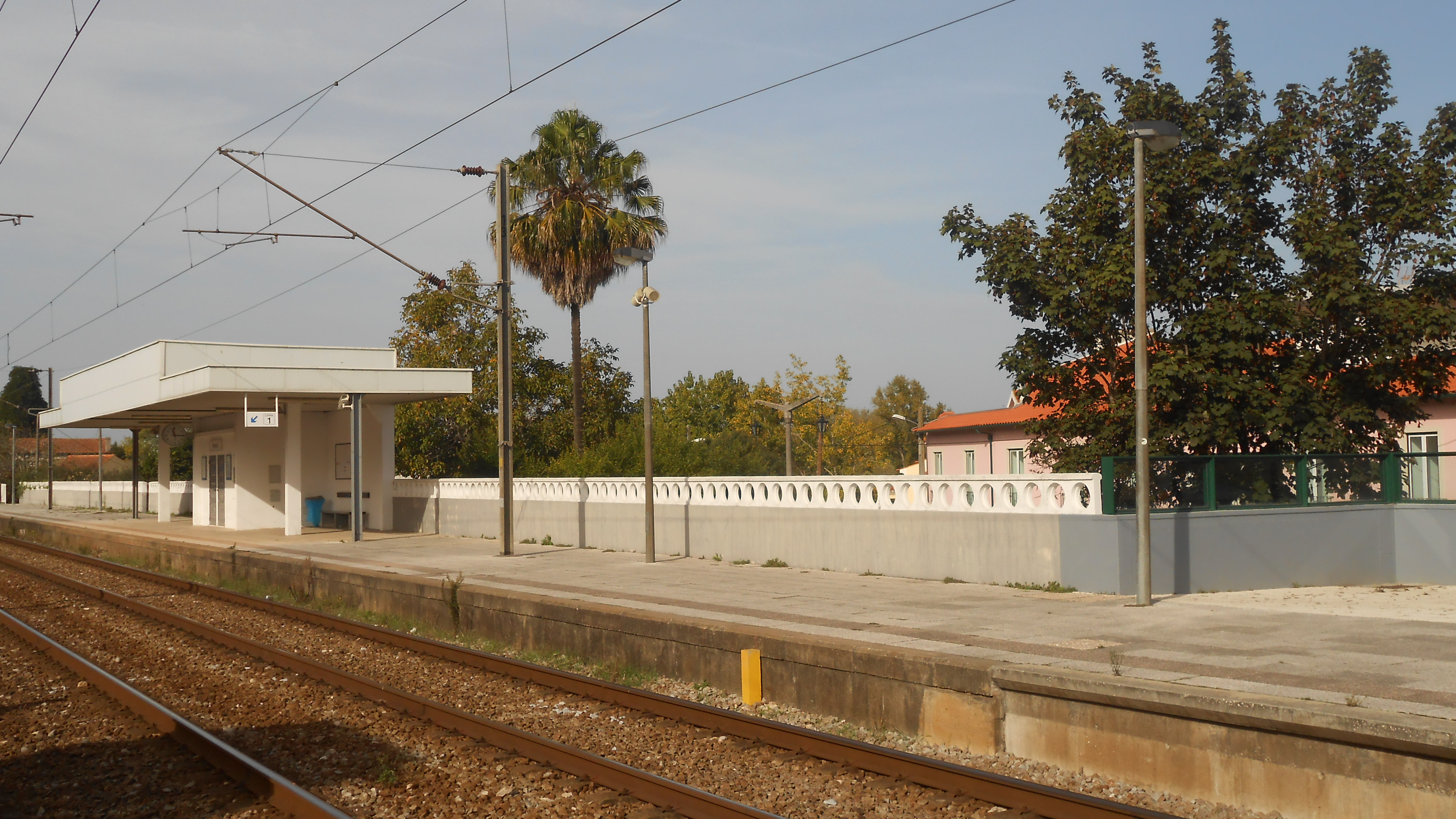 Platform 1 of the Pereira halt.